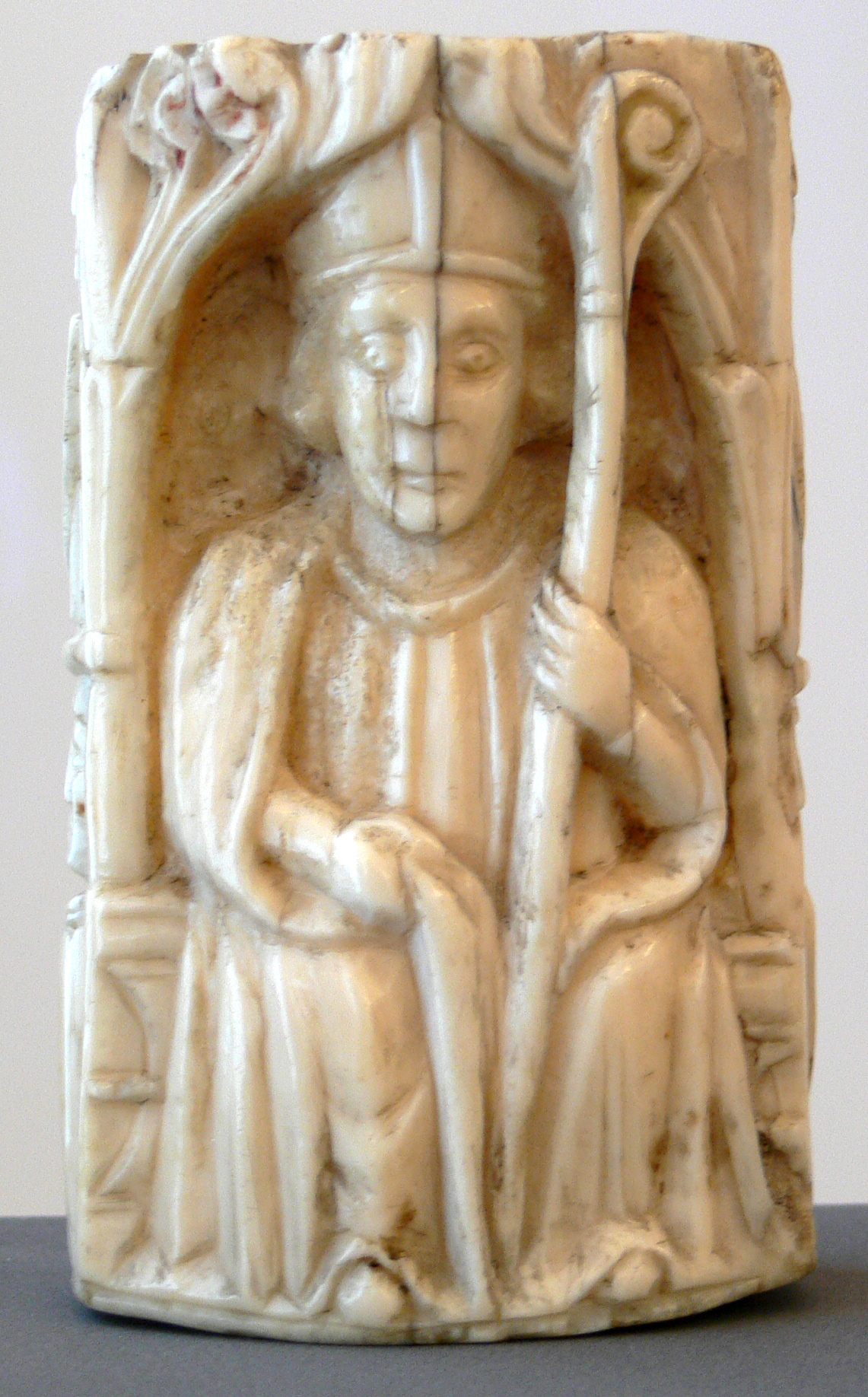 Chess Figure (from a display with chess figures from Italy, Central Europe and Northern Europa, made from ivory or walrus teeth; 12th to 16th century. Skulpturensammlung, Bode-Museum Berlin.)